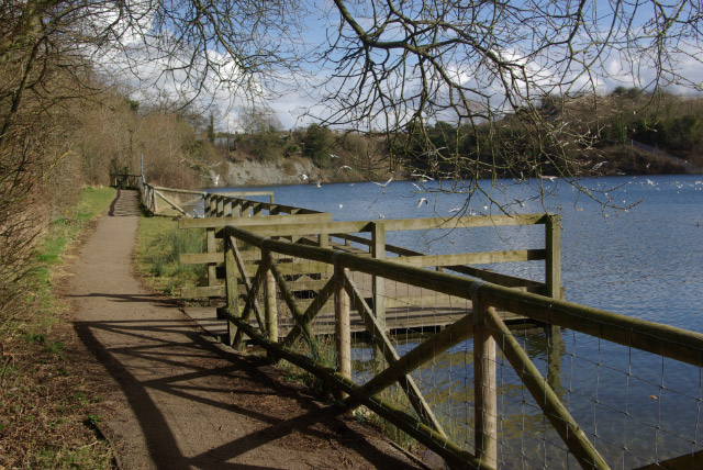 Newbold Quarry Park Showing the pontoon built to allow access for diabled fishermen.